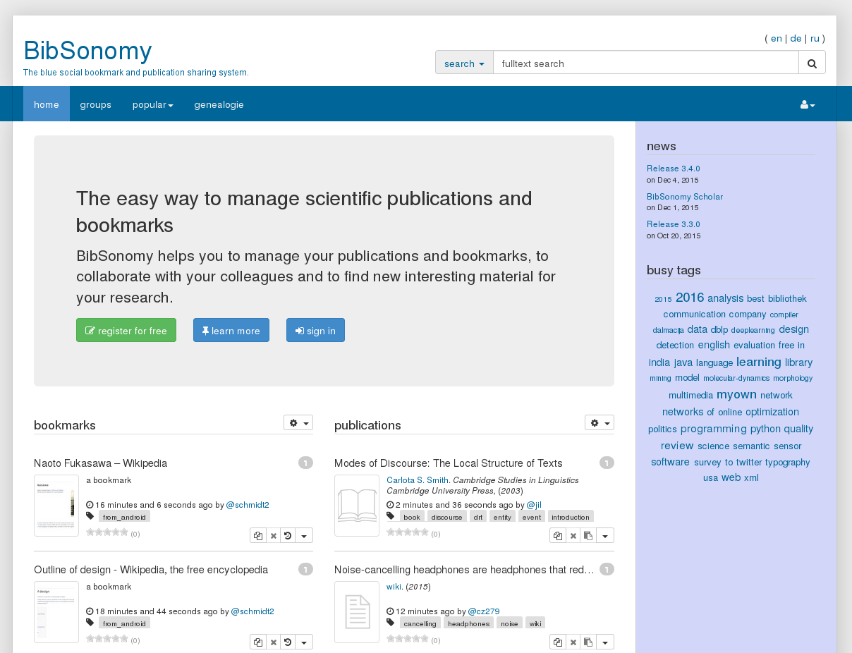 Screenshot of the homepage of the social bookmarking system BibSonomy